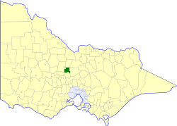 Location of the Shire of Strathfieldsaye within Victoria.